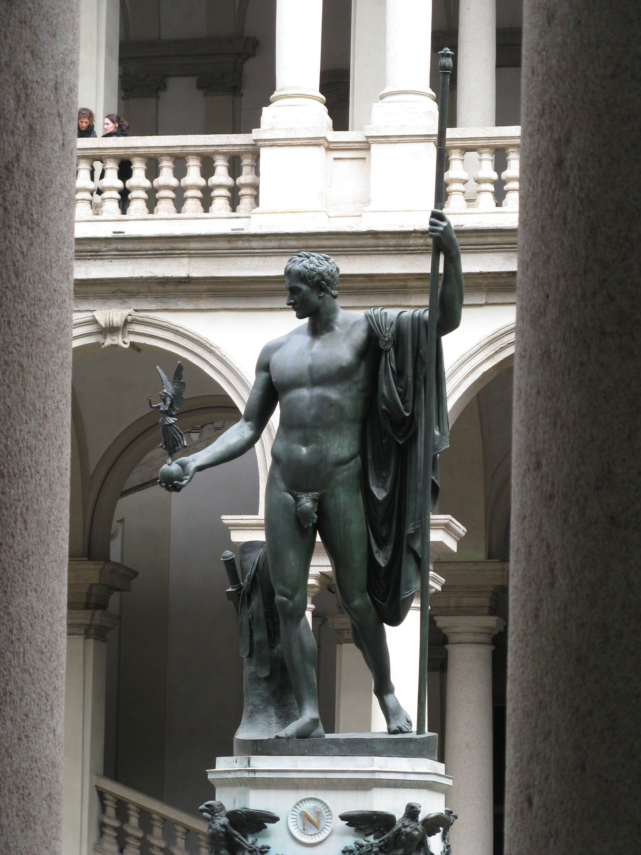 Napoleon as Mars - Bronze